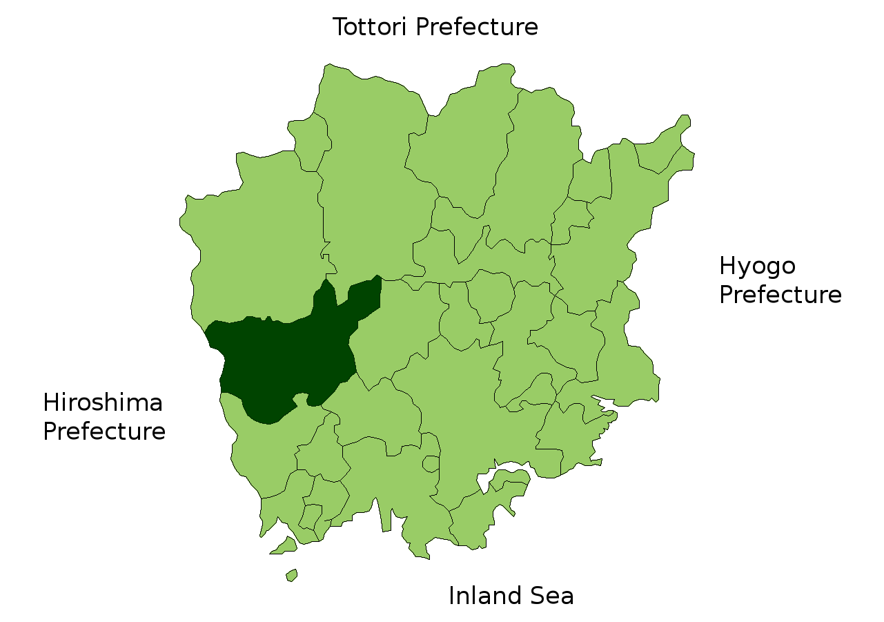 Map of Okayama Prefecture highlighting Takahashi city. Borders of map as of July, 2006. (blank map used from [1]) See also Image:OkayamaMapCurrent.png.